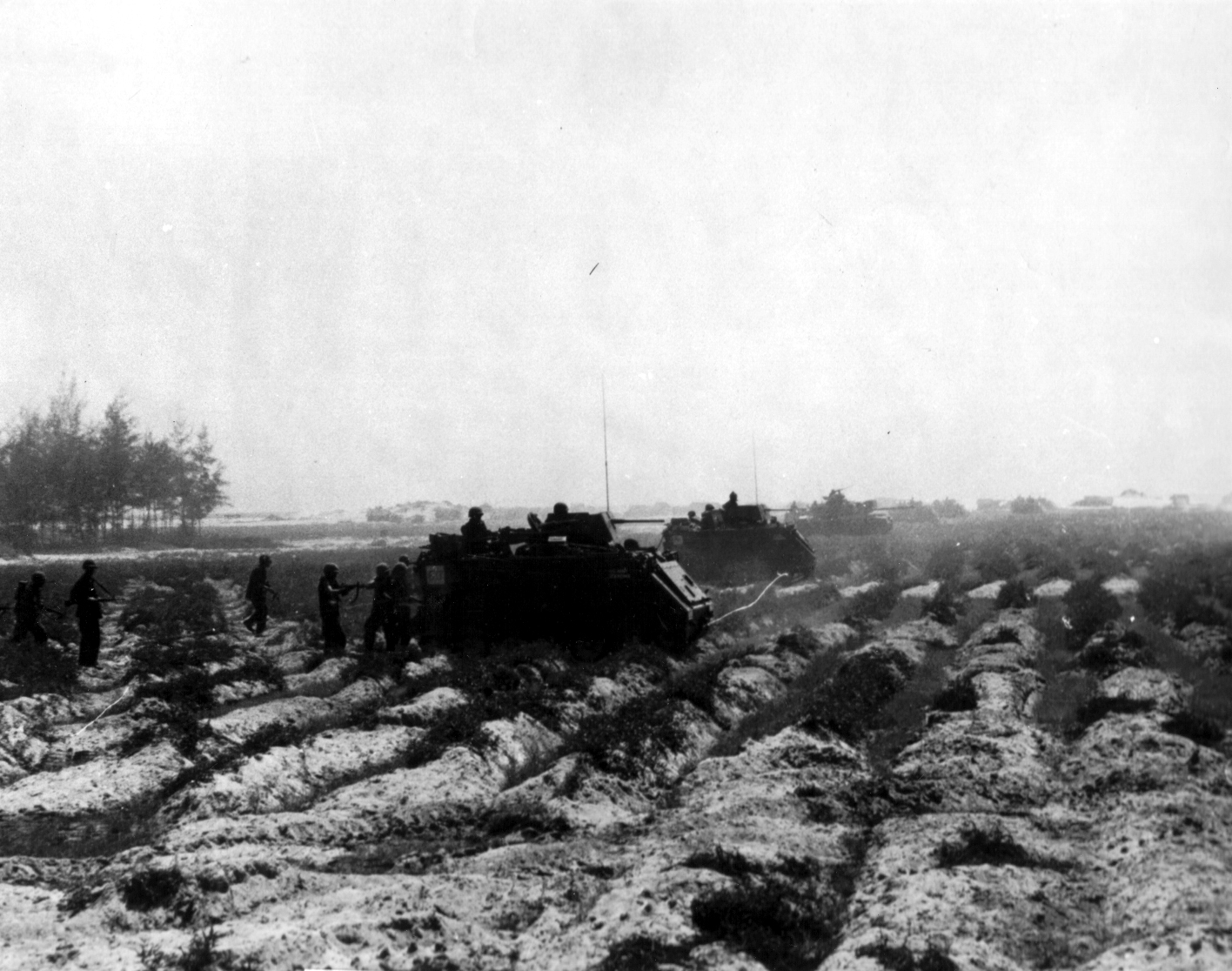 PILE-ON OPERATION IN I CORPS, JUNE 1968. ACAV's and tanks of Troop B, 3d Squadron, 5th Cavalry, attack Binh An.